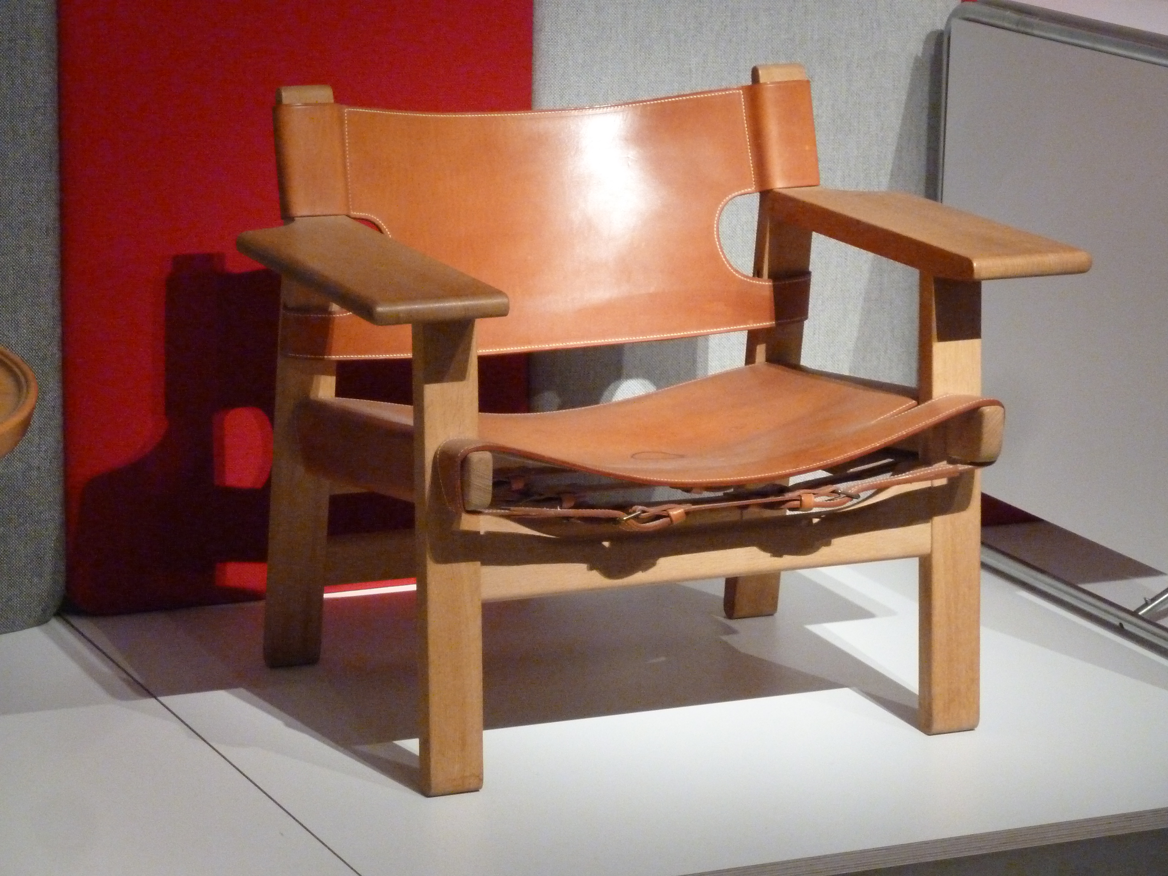 Børge Mogensen's Spannish chair exhibited at Designmuseum Danmark